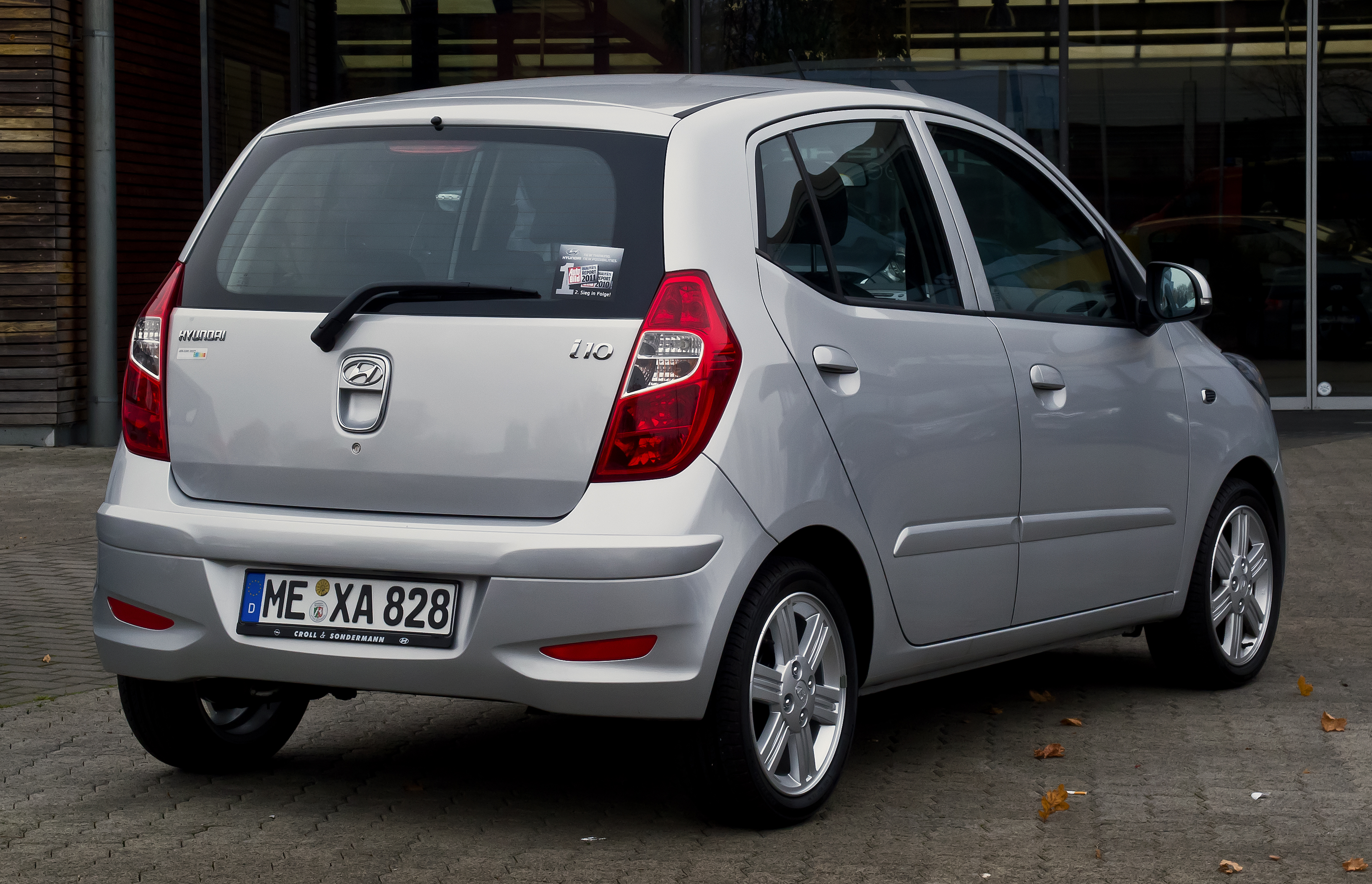 Hyundai i10 1.1 UEFA EURO 2012 Edition (Facelift)